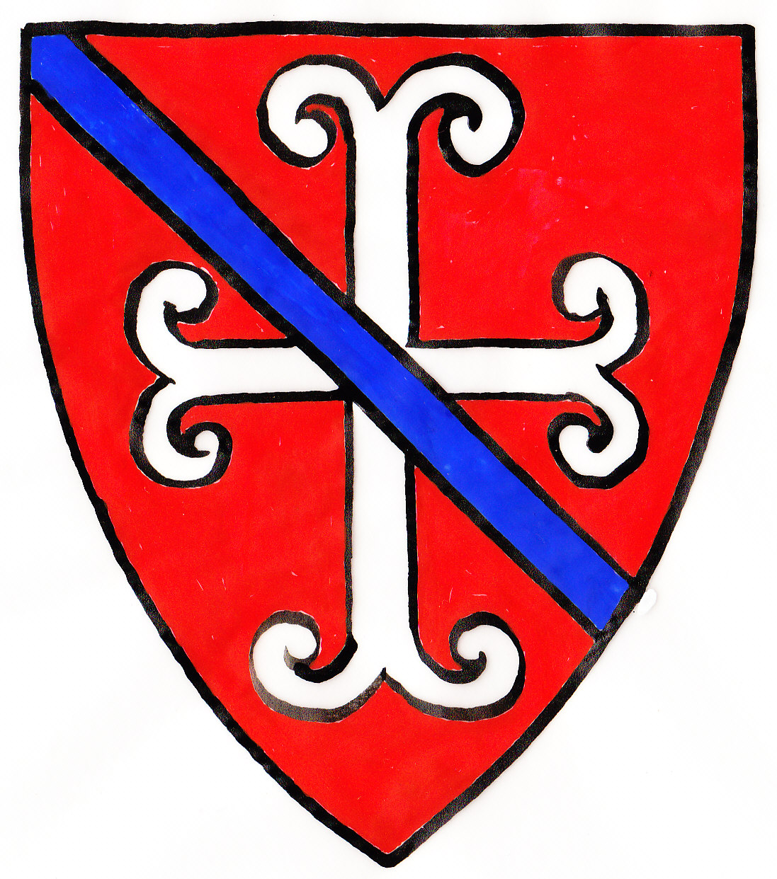 Arms of Sir Guy Ferre (died 1323), steward of Queen Eleanor of Castile: Gules, a fer-de-moline argent over all a bendlet azure. Source: Charles Boutell (1863) Heraldry, Historical and Popular, London: Winsor and Newton, p. 45 and plate LXIX, no. 153A (in the latter drawing misprinted "Hursthelve" in place of Ferre correctly given in the text) OCLC: 79830498. . It appears on the Denys funerary brass in the Parish Church of Saint Mary the Virgin, Olveston, Gloucestershire, England, UK.